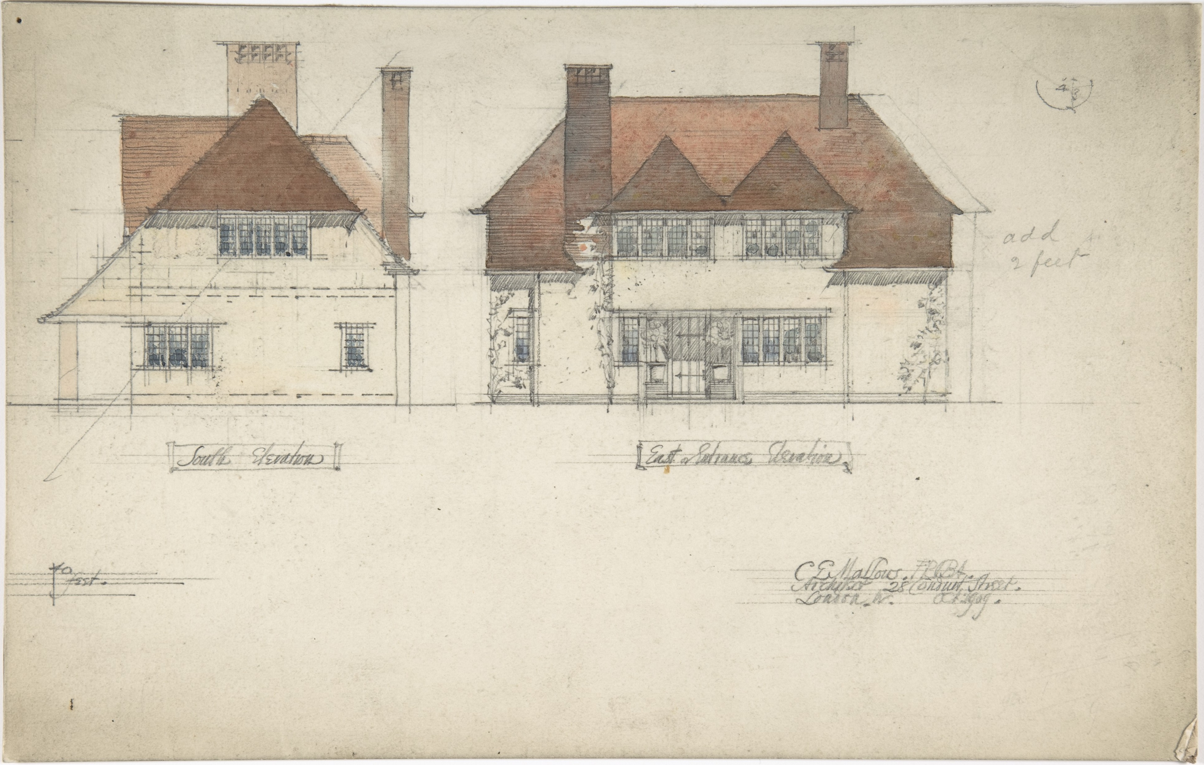 South Elevation and East or Entrance Elevation of a House Artist: Charles Edward Mallows (British, 1864–1915) Date: 1909 Medium: Pen and ink, over graphite, with watercolor Dimensions: sheet: 8 x 12 3/4 in. (20.3 x 32.4 cm)